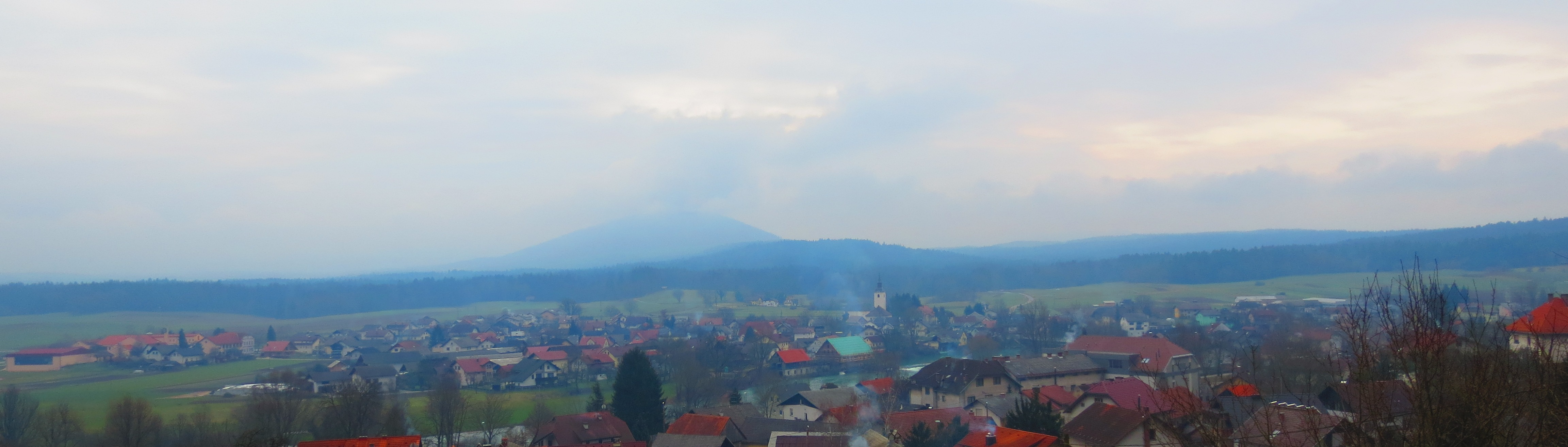 Vavta vas from church of st. Thomas, Straža